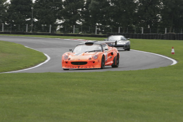 Chris Curve at Cadwell Park motor racing circuit.